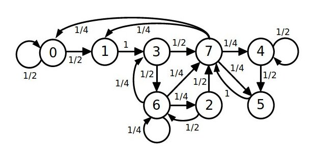 3-cell state diagram for the rule 110 elementary cellular automaton showing forward conditional transition probabilities with random stimulation.